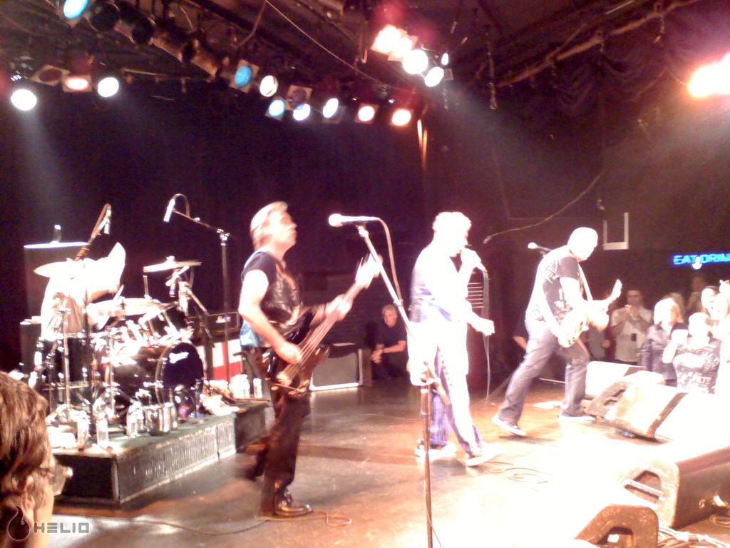 The Sex Pistols performing at The Roxy in Hollywood, California on October 26, 2007